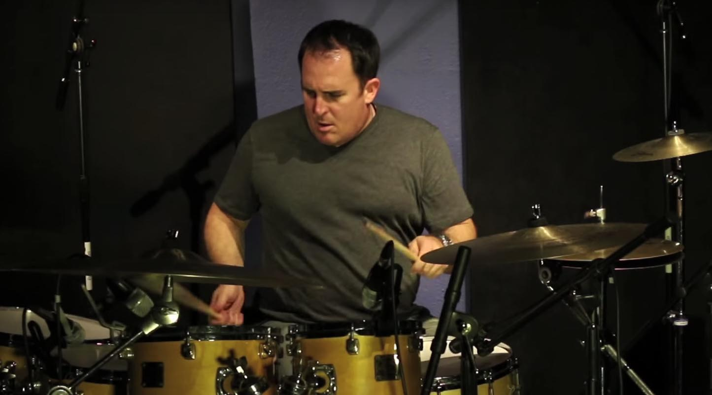 Craig Pilo in the act of drumming.